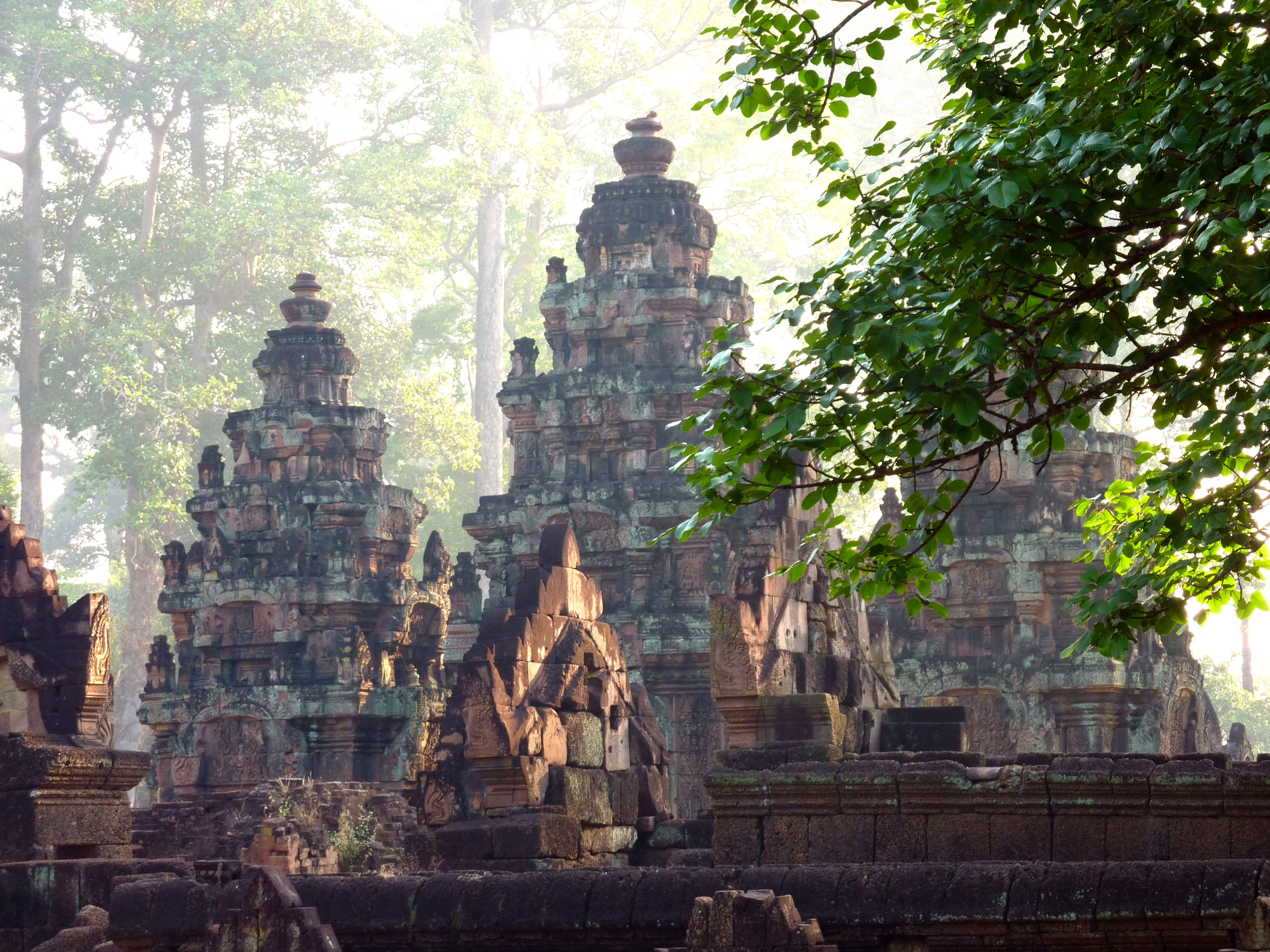 Banteay Srei Temple at Dawn, Cambodia